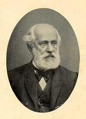 Georg Abegg (1826-1900).